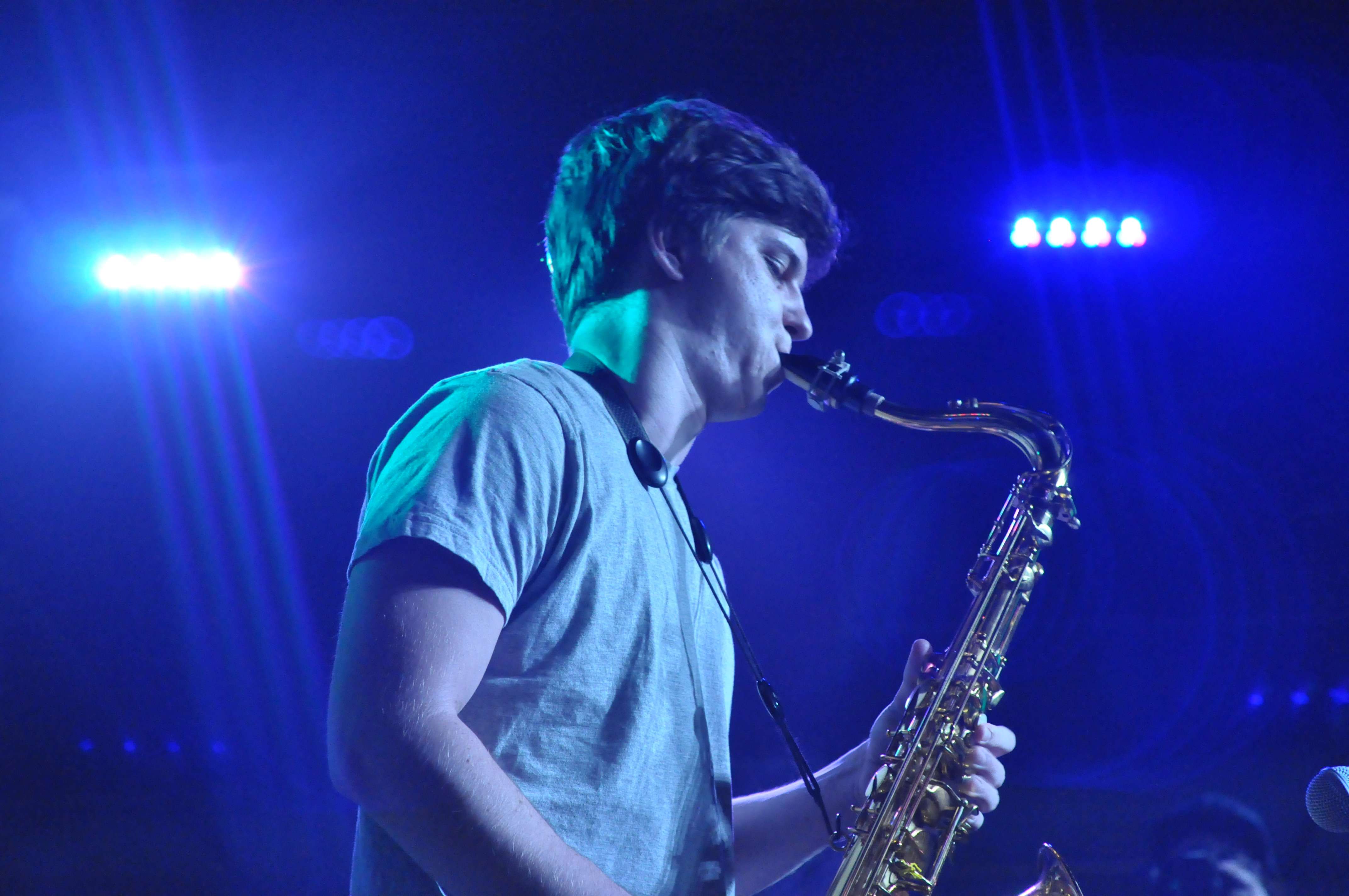 BadBadNotGood performing live in 2012.